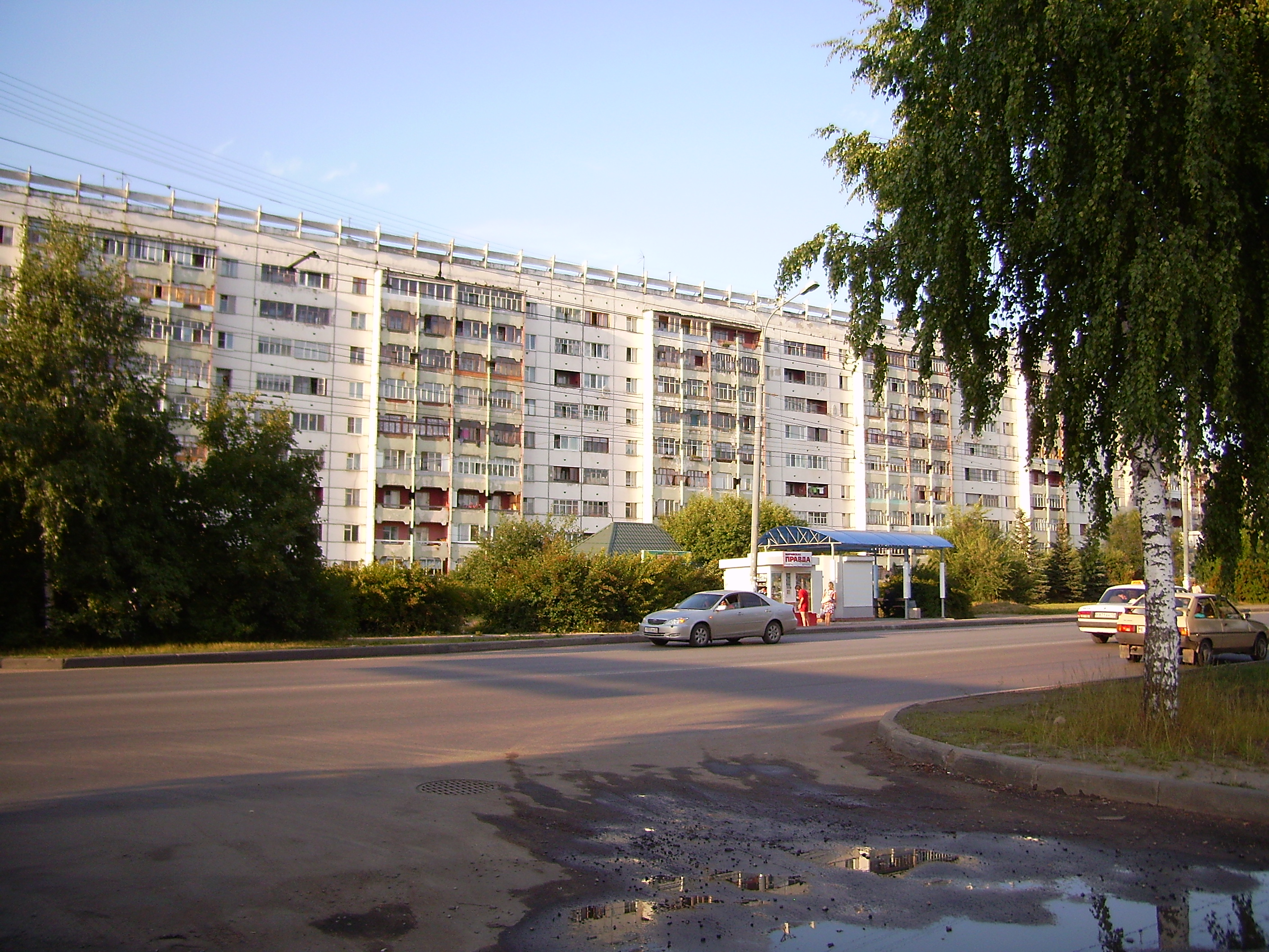 Houses of microdistrict Szombathely